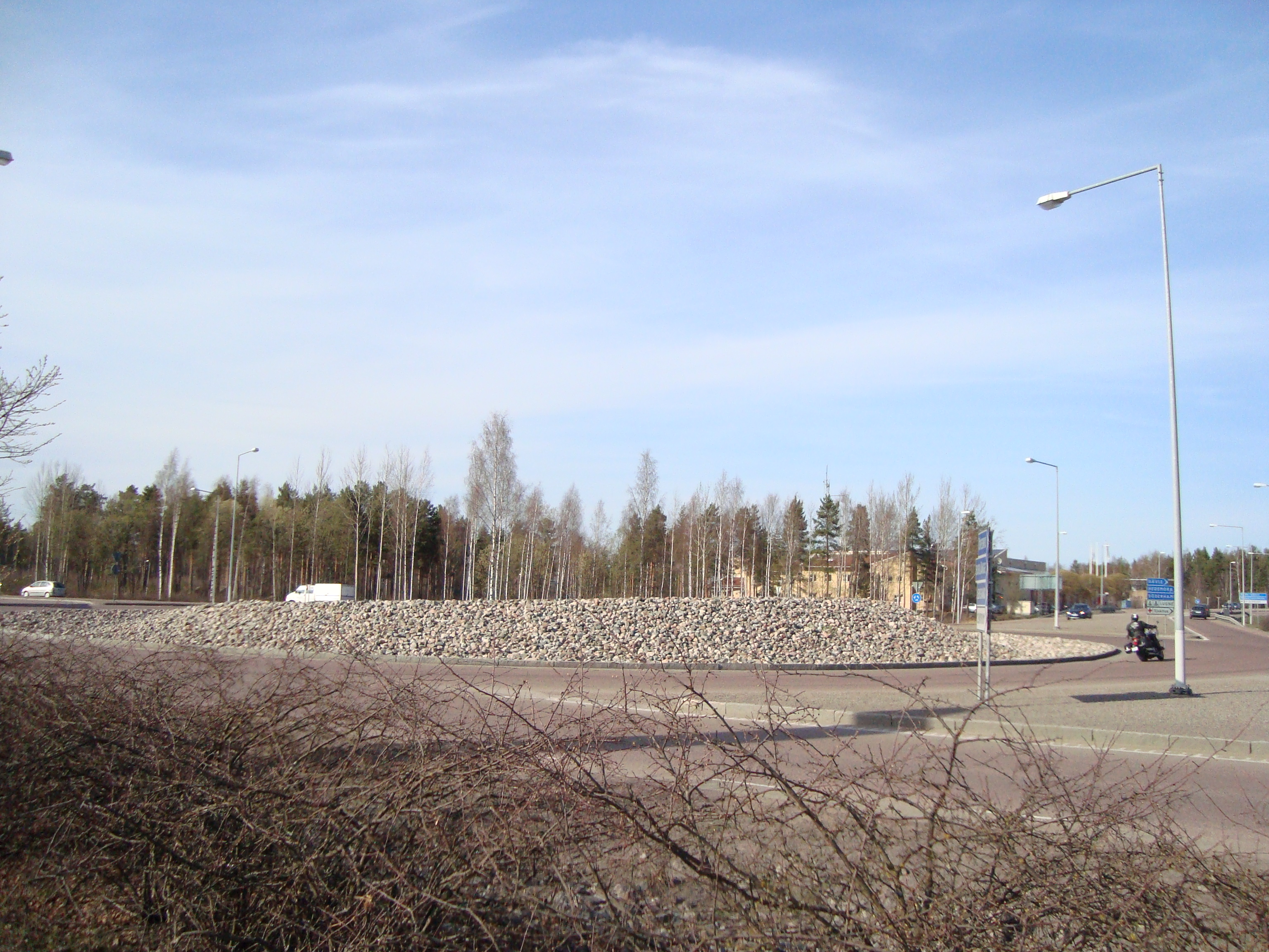 Jungfrurondellen, a roundabout in Falun, Sweden